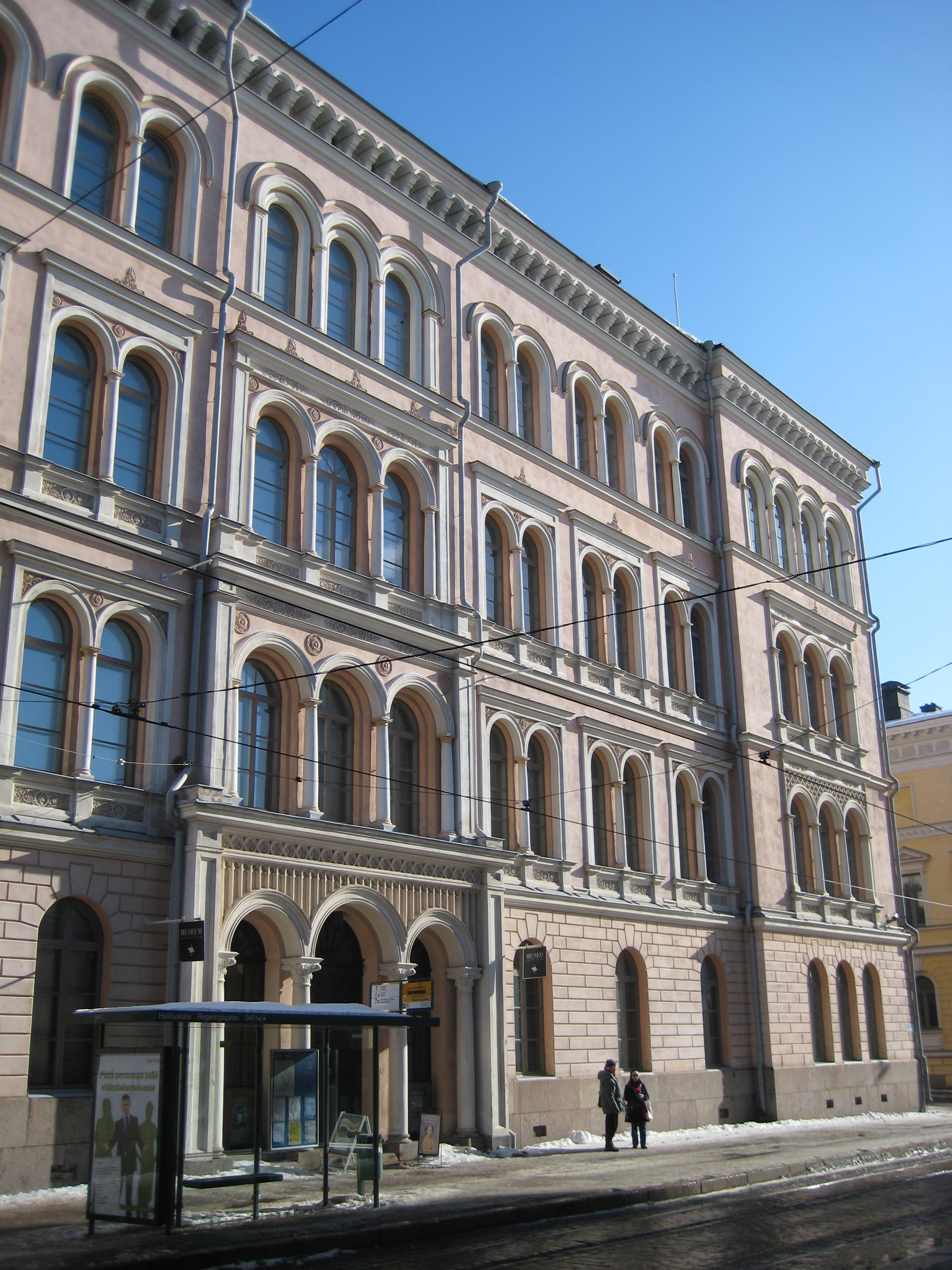 Helsinki University Museum, Facade